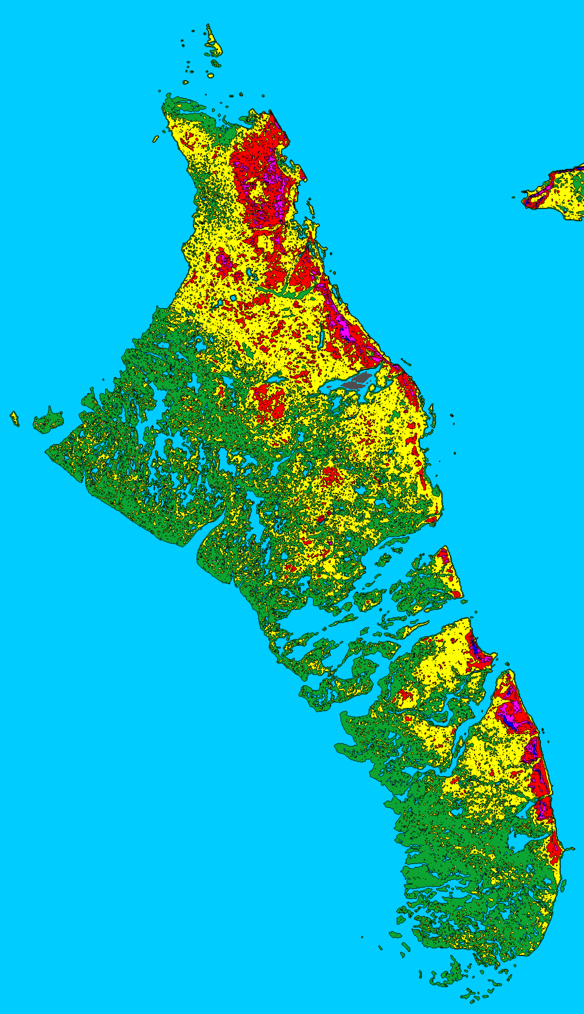 Topographic map of Andros Island, Bahamas shaded at 15 foot (4.572 meter) contour intervals. MAP KEY Light Blue: 0 ft (0.0 m) Green: 0-15 ft (0.0-4.6 m) Yellow: 15-30 ft (4.6-9.1 m) Red: 30-45 ft (9.1-13.7 m) Violet: 45-60 ft (13.7-18.3 m) Blue: 60+ ft (18.3+ m) Gray: No Data Map created with SRTM3 digital elevation data ( Resolution is ~90 meters.